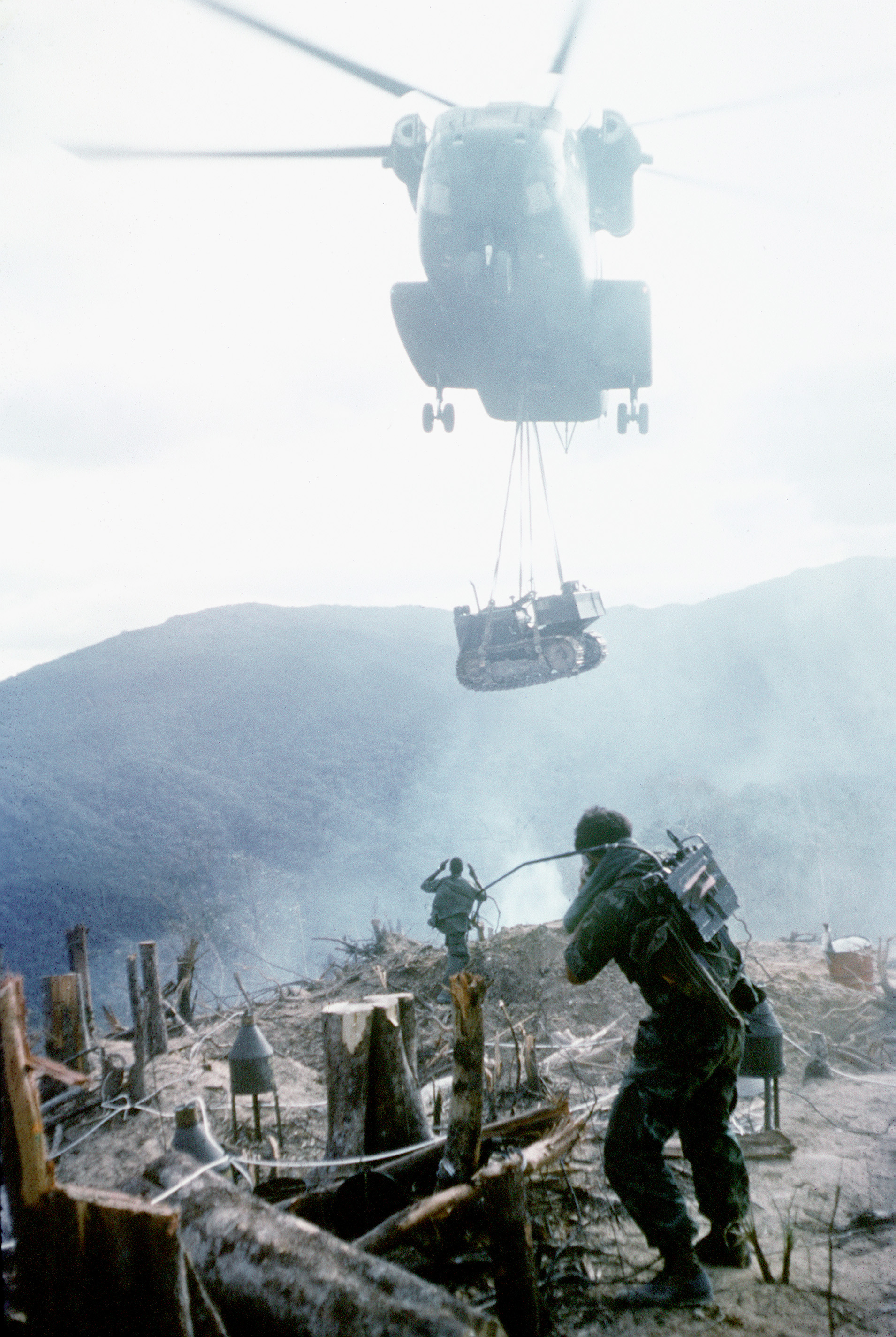 A CH-53 Sea Stallion helicopter airlifts a bulldozer into a mountain-top fire support base construction site. The CH-53 is being guided in by members of a 3rd Marine Division construction team.